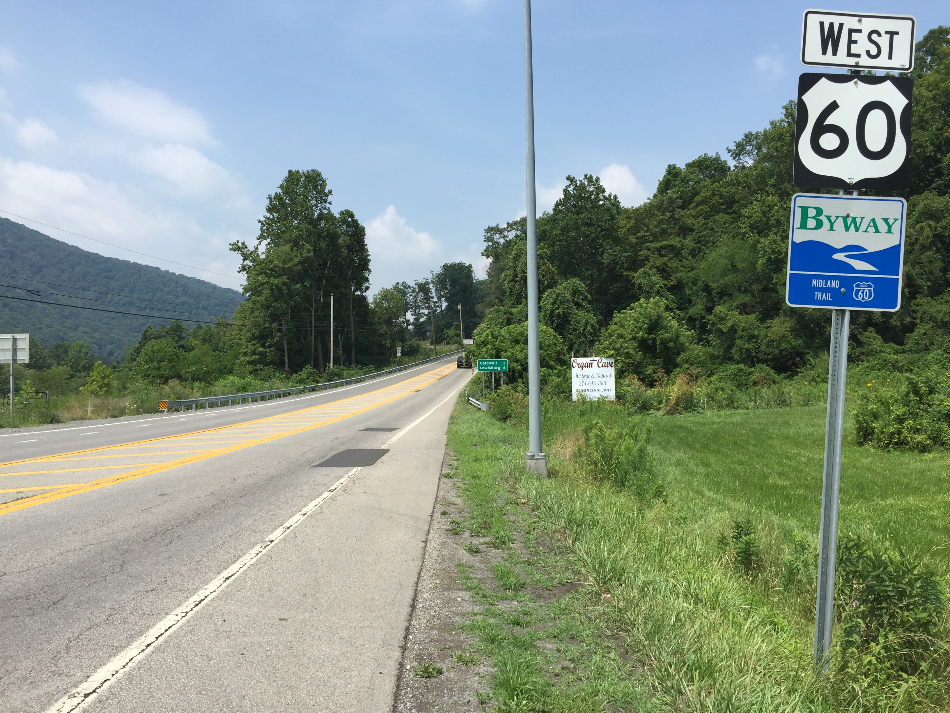 View west along U.S. Route 60 (Midland Trail) at Harts Run Road (Greenbrier County Route 60/14) in White Sulphur Springs, Greenbrier County, West Virginia